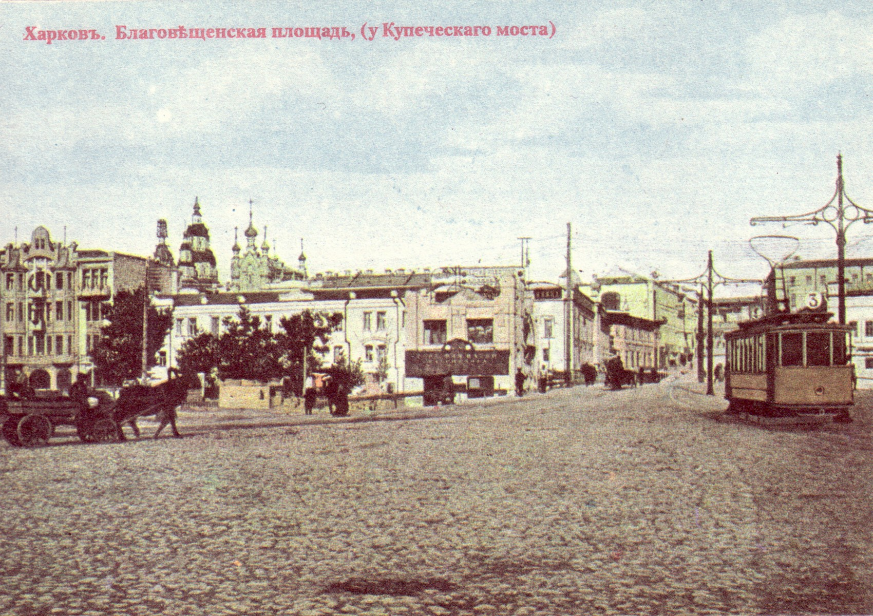 Universal Postal Union. A postcard. Kharkov. View from Blagoveshchenskaya Square (now Karl Marx Square) across the Lopan River facing University Hill to Kupechesky Bridge and Kupechesky Spusk. Pokrovsky monastery is to the left.